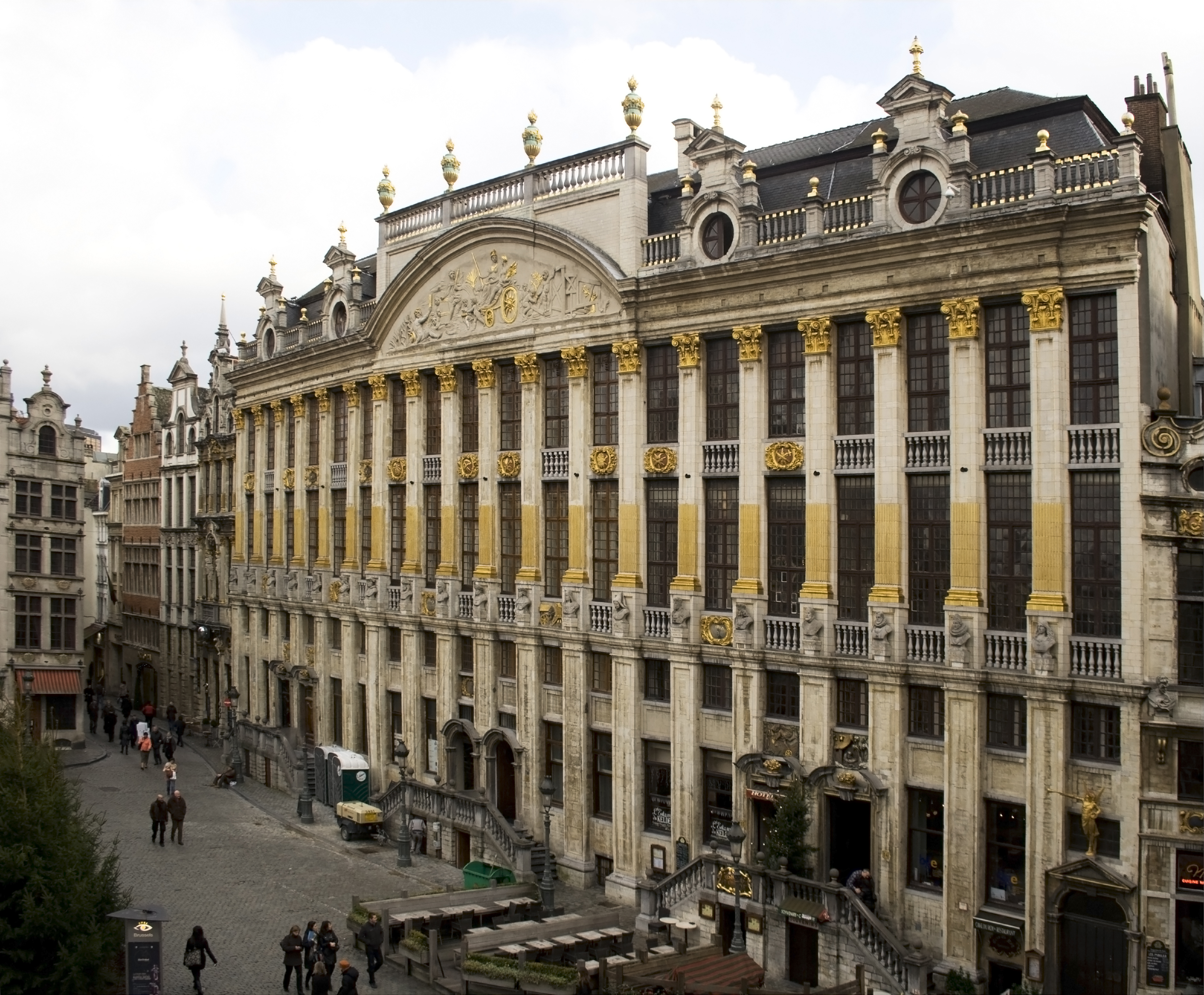 House of the Dukes of Brabant, Grand-Place, Brussels - from the balcony of the Swan house